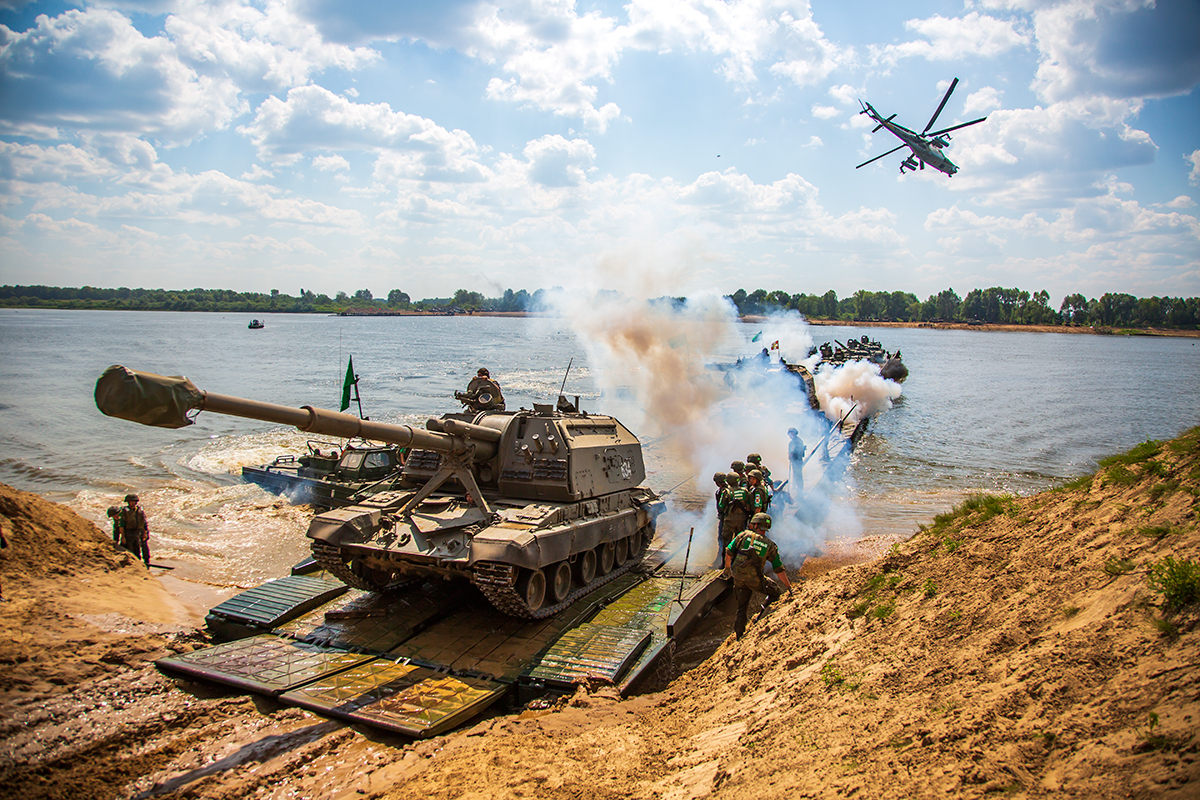 2S19M1.